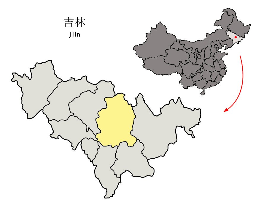 Location of Jilin Prefecture (yellow) within Jilin Province of China Map drawn in november 2007 using various sources, mainly : Jilin Province administrative regions GIS data: 1:1M, County level, 1990 Jilin Counties map from